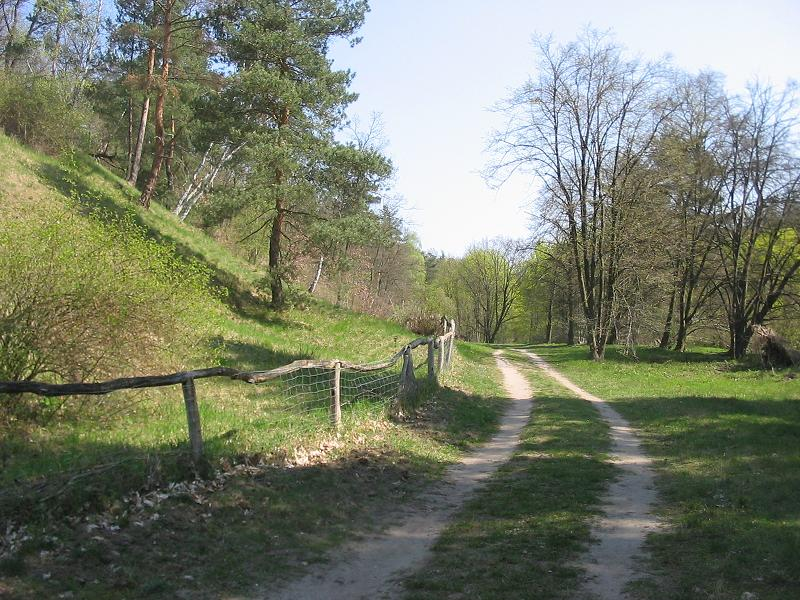 Path at the "Murellenschlucht und Schanzenwald" nature reserve in Berlin. – The Murellenberge, the Murellenschlucht and the Schanzenwald (german for: Murellenhill, Murellenravine, Sconceforest) are a hill-landscape from the last gacial period in Berlin-Ruhleben in the district Charlottenburg-Wilmersdorf. It is part of the Teltow-Plateau at its northside in Berlin. In the hills there is the memorial Denkzeichen zur Erinnerung an die Ermordeten der NS-Militärjustiz am Murellenberg (german for: Thought-Signs to commemorate the victims of Nazi military justice at Murellenberg), created by the argentine, in Berlin living, artist Patricia Pisani in 2002.